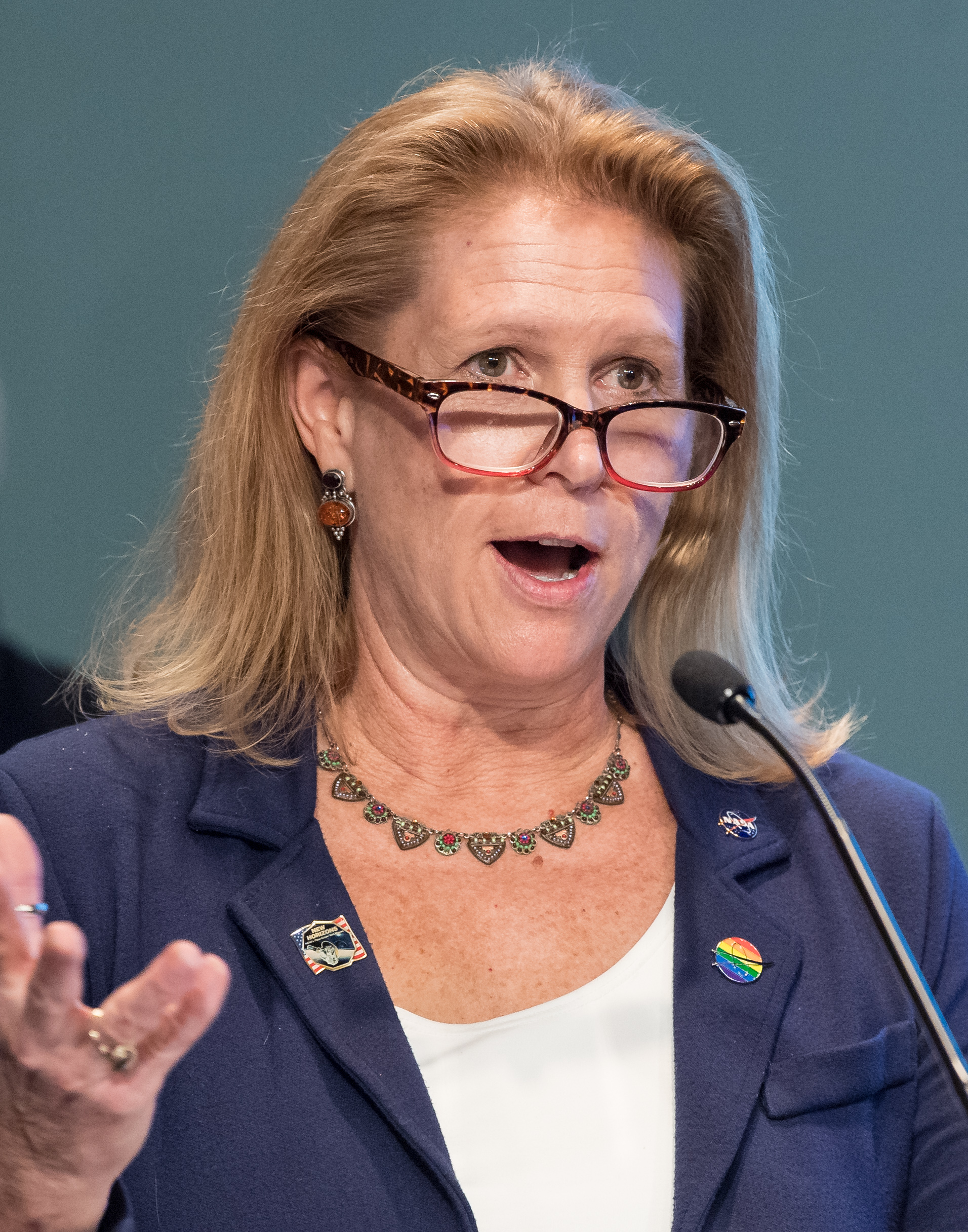 Dr. Lori Glaze, director for the Planetary Science Division, NASA Science Mission Directorate, speaks at a naming ceremony for 2014 MU69, a celestial body discovered by the New Horizons mission and Hubble Space Telescope, formerly nicknamed “Ultima Thule”, Tuesday, Nov. 12, 2019, at NASA Headquarters in Washington. The new name, “Arrokoth,” means “sky” and is from the Algonquian Languages, spoken by the Powhatan tribes of the region of Maryland it was discovered in. Tribal elders from those tribes approved of the name and participated in the ceremony.